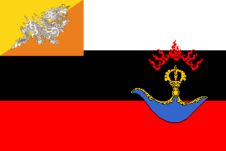 Flag of Royal Bhutan Army